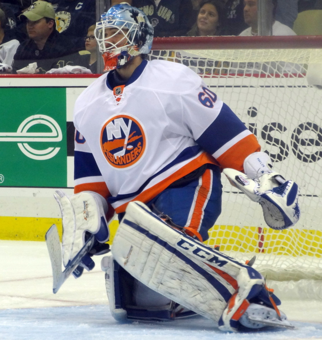 New York Islanders backup goaltender Anders Nilsson entered game five of their 2013 Stanley Cup playoffs round one series against the Pittsburgh Penguins after the Islanders had fallen behind 4-0 in the third period. May 9, 2013 at Consol Energy Center in Pittsburgh, PA.